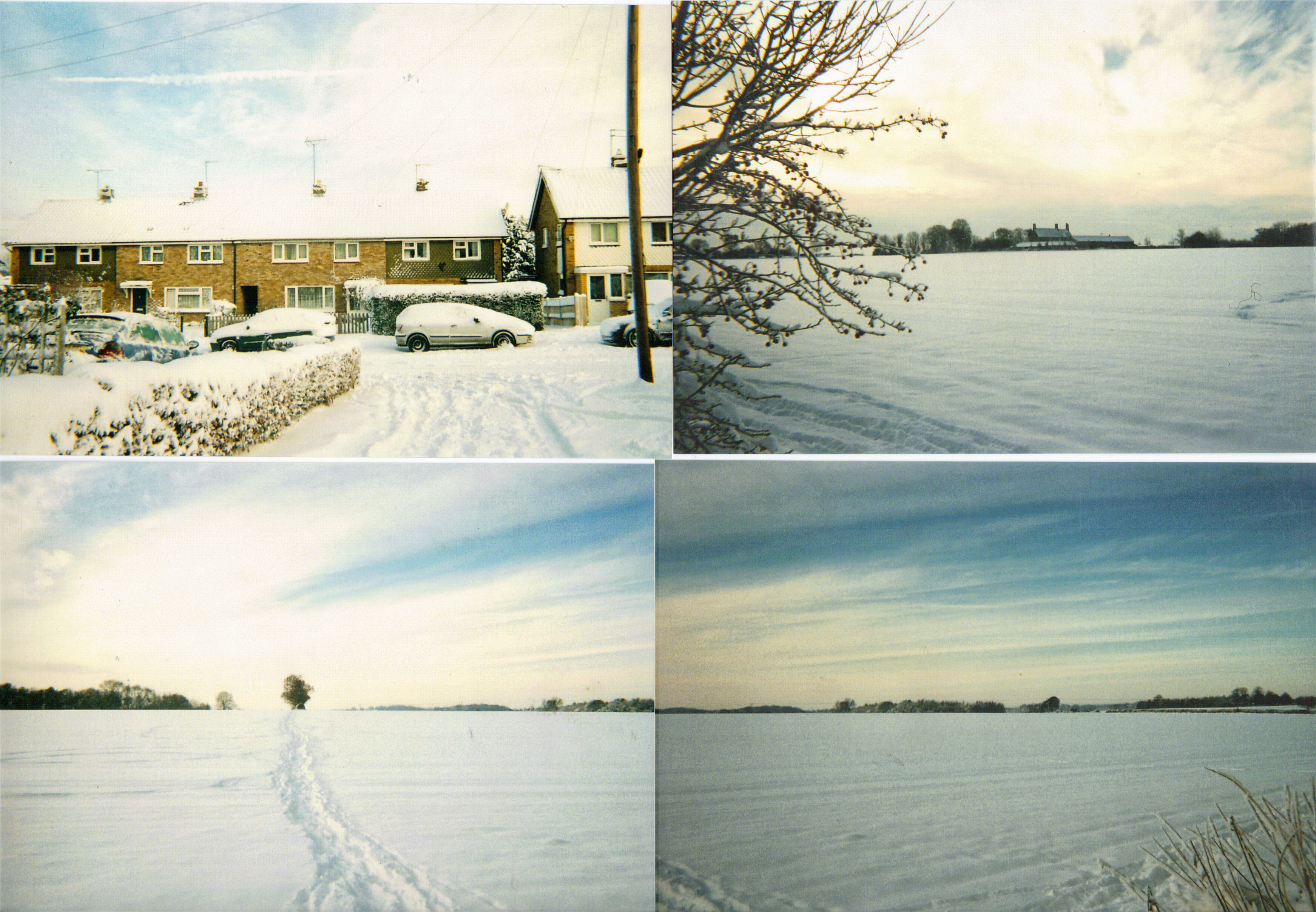 A picture of Neithrop, Banbury on the 20th of December 2010.